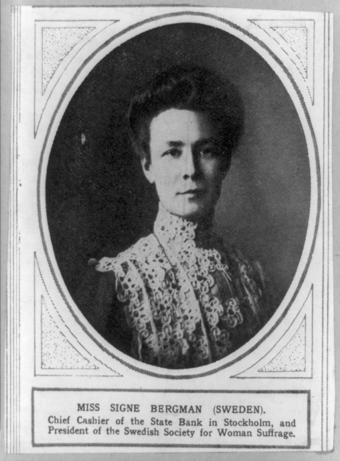 Signe Bergman, President of the Swedish Society for Woman Suffrage, head-and-shoulders portrait, facing right